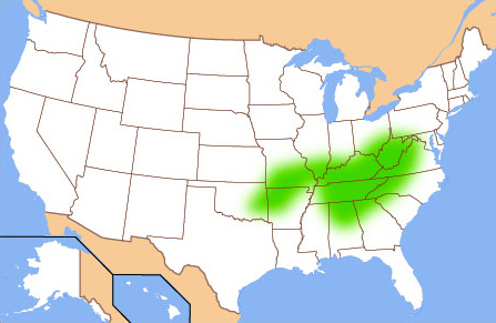 Map of the United States showing the approximate region known as the Upland South or Upper South.